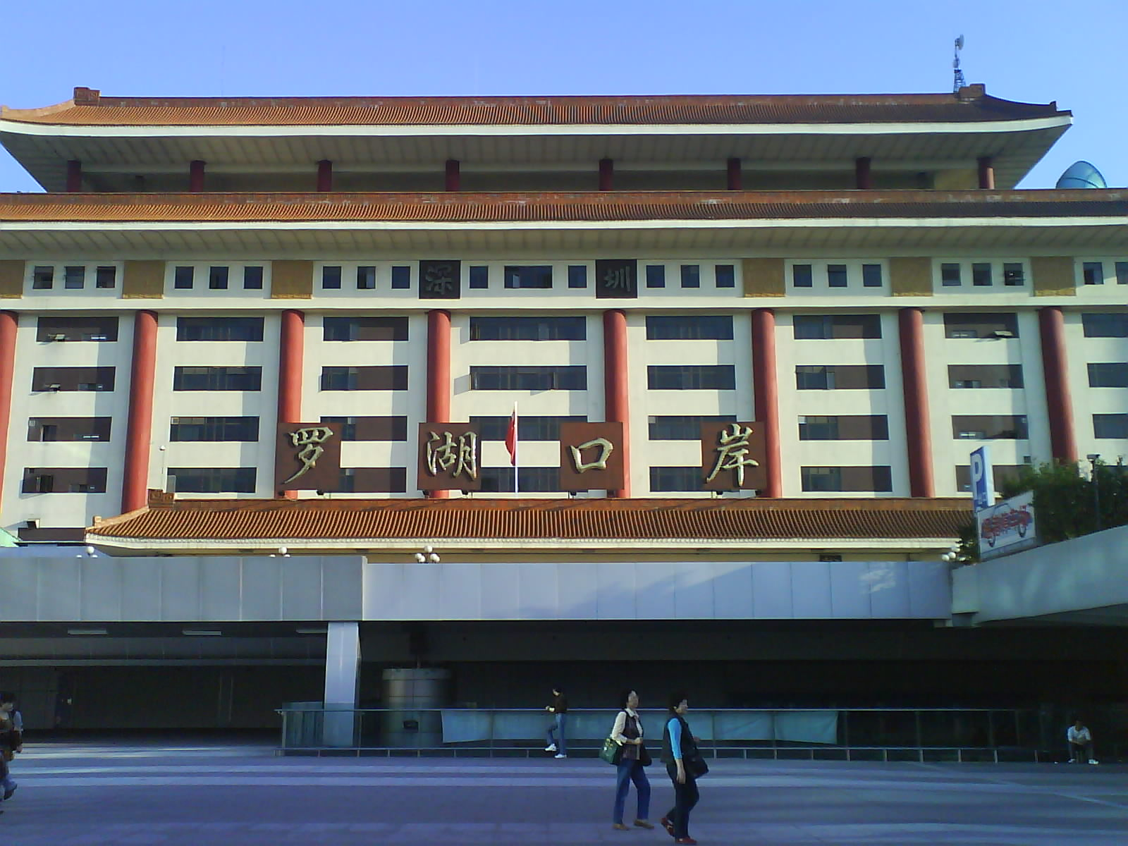 Taken by user Bourquie on 18 April 2007